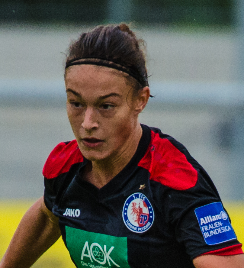 Match of the German Women's Football Bundesliga between 1.FFC Frankfurt and 1. FFC Turbine Potsdam, 2015-09-13